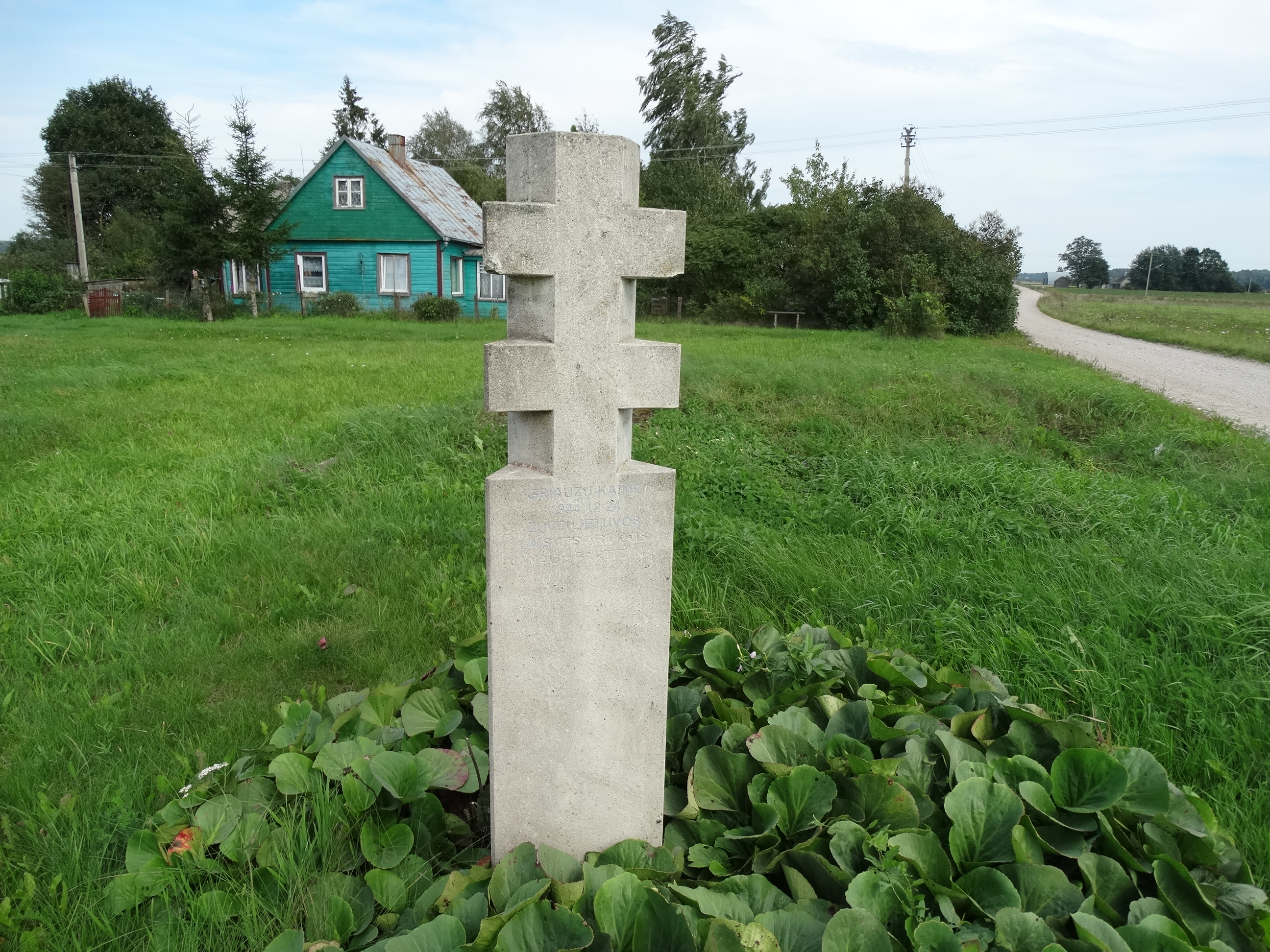 Griaužai, Jurbarkas district Lithuania